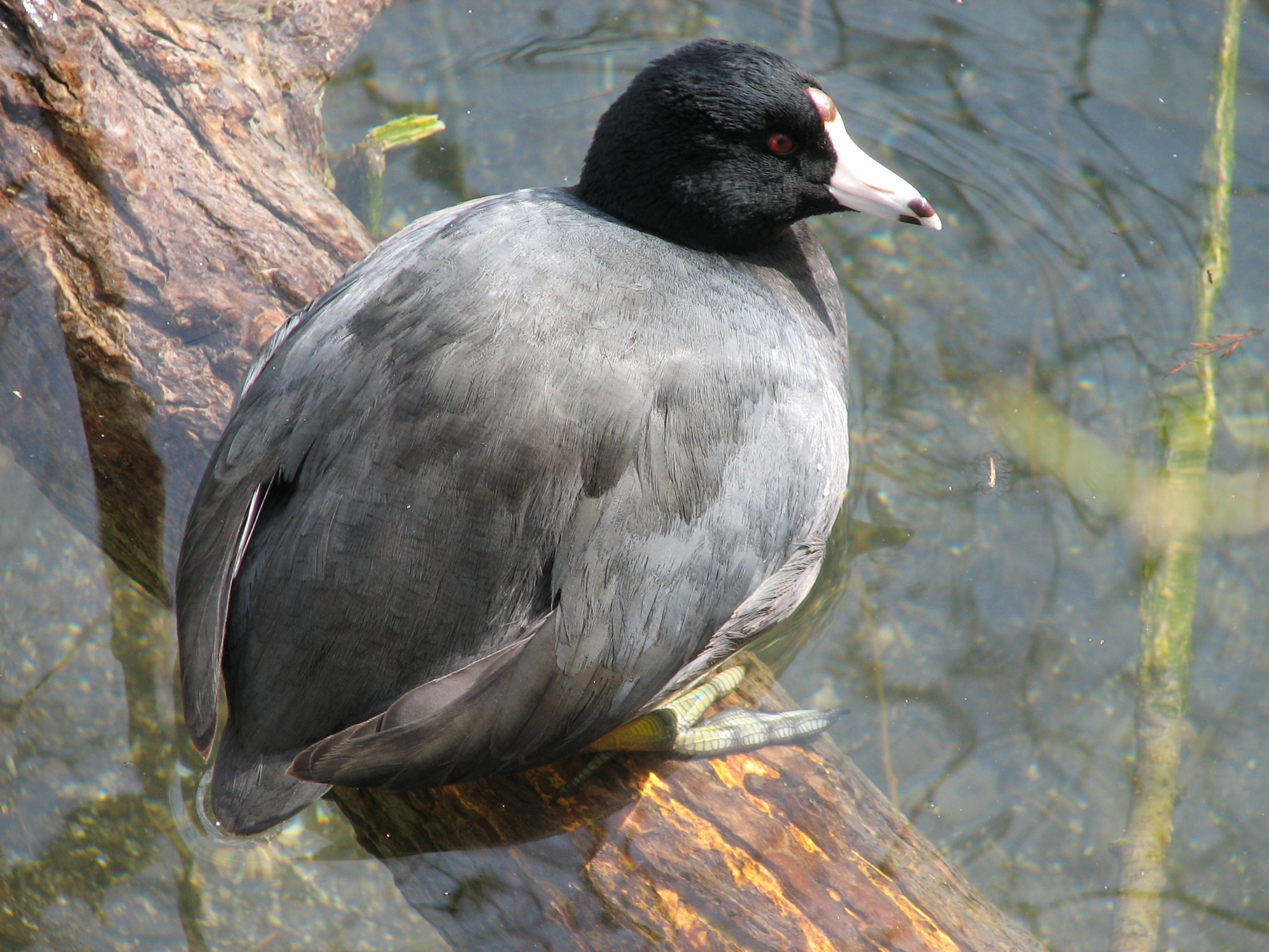 American Coot - Fulica americana